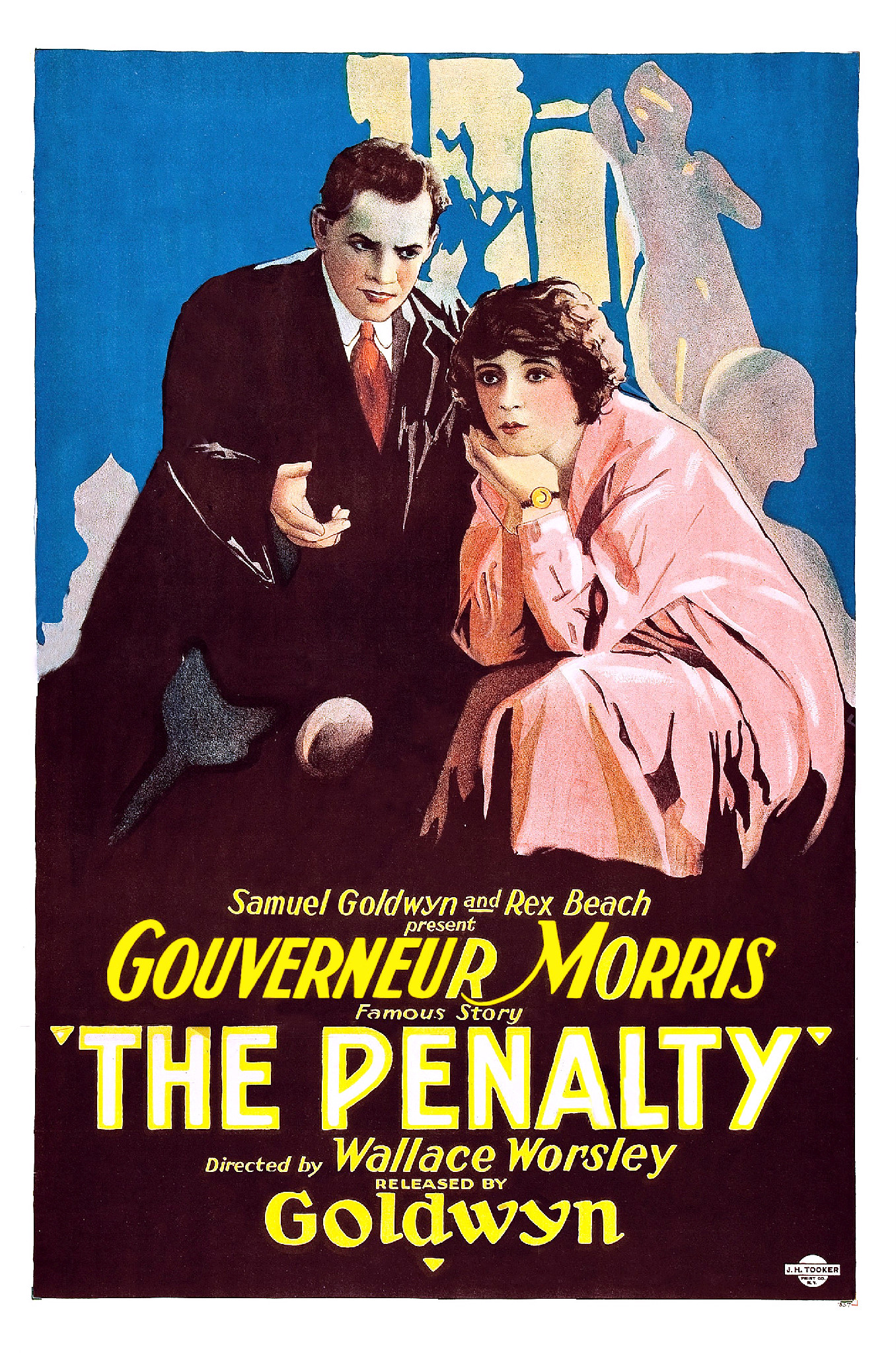 Film poster for The Penalty (1920), directed by Wallace Worsley (d. 1944).